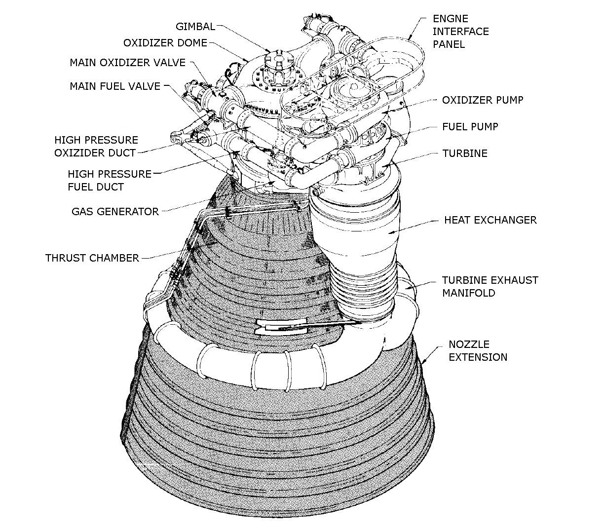 F-1 Rocket Engine. Image Labels: Gimbal, Oxidizer Dome, Main Oxidizer Valve, Main Fuel Valve, High Pressure Oxidizer Duct, High Pressure Fuel Duct, Gas Generator, Thrust Chamber, Engine Interface Panel, Oxidizer Pump, Fuel Pump, Turbine, Heat Exchanger, Turbo Exhaust Manifold, Nozzle Extension.